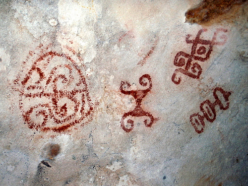 ndian paintings in Fountein Cave 1